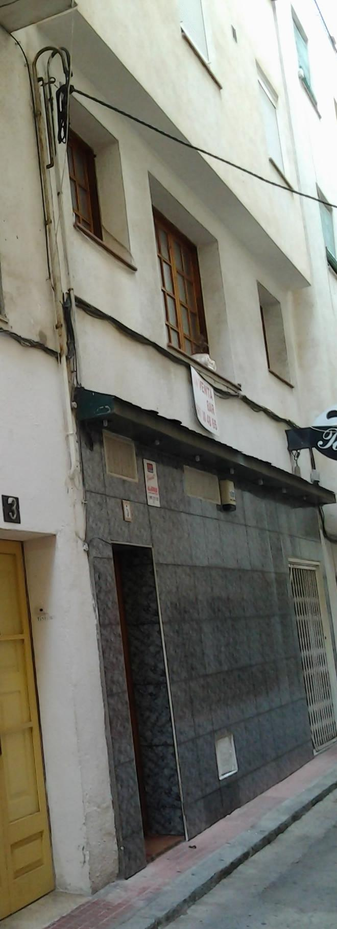 Carrer Santa Teresa, 5